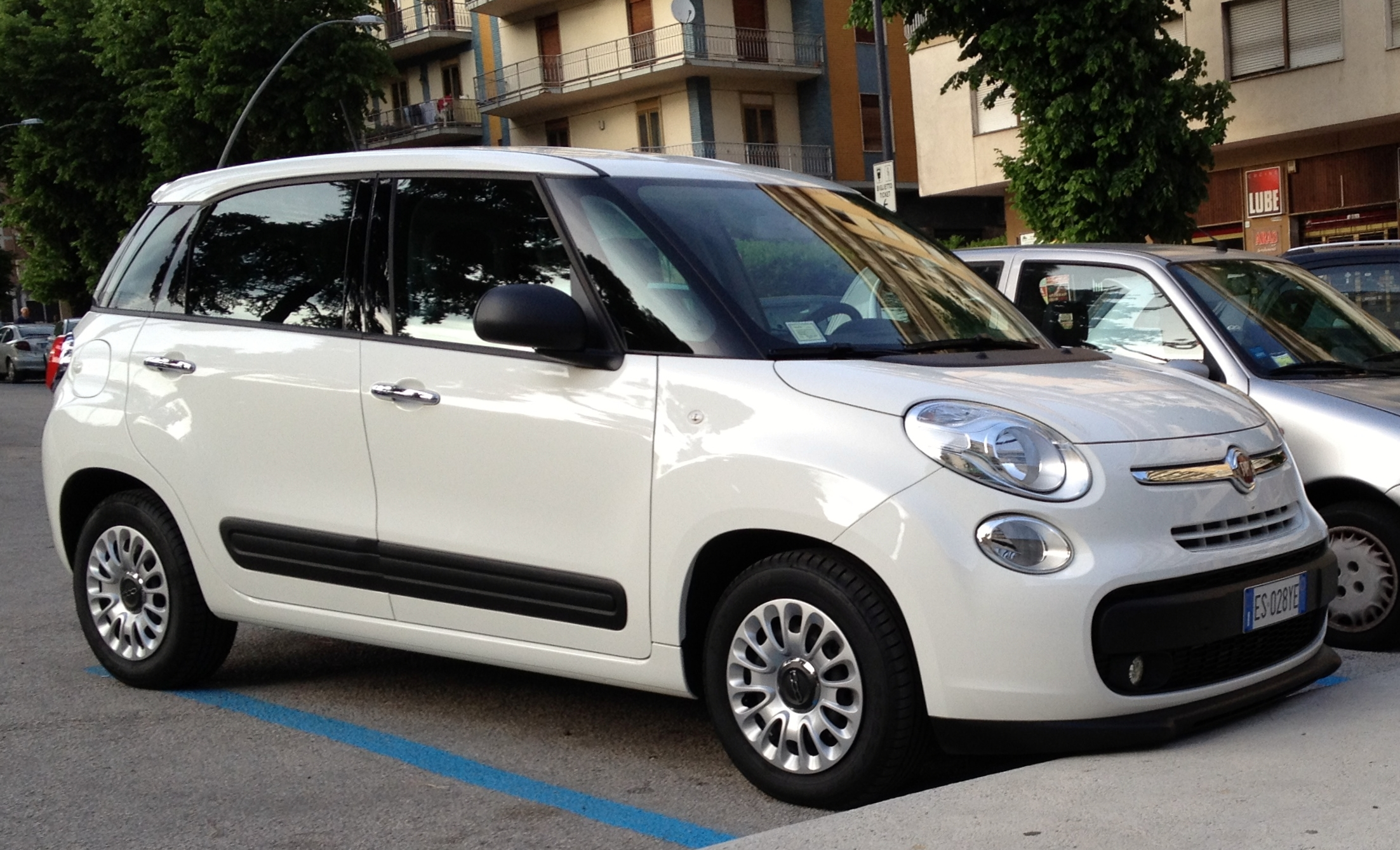 2014 Fiat 500L 1.3 Multijet Pop front